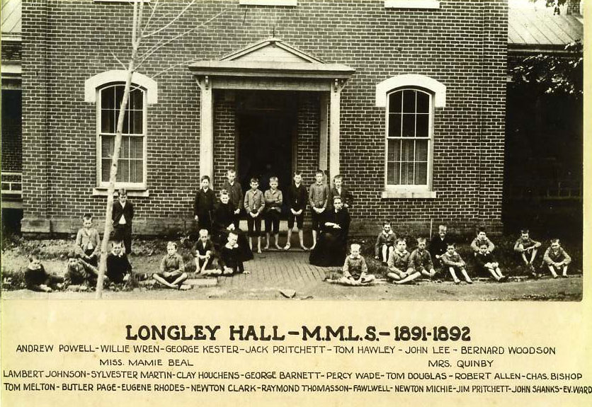 Boarding students 1891